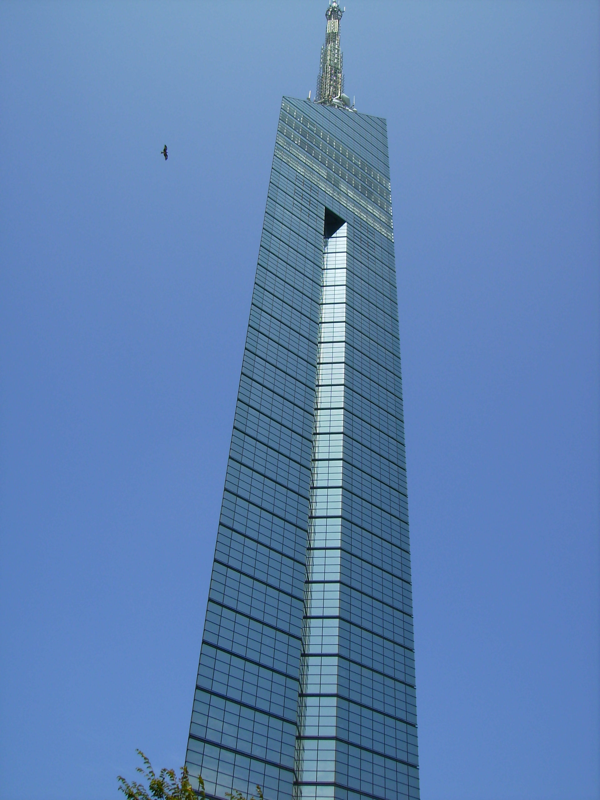 Fukuoka Tower. I took this photo on 23rd August 2006.